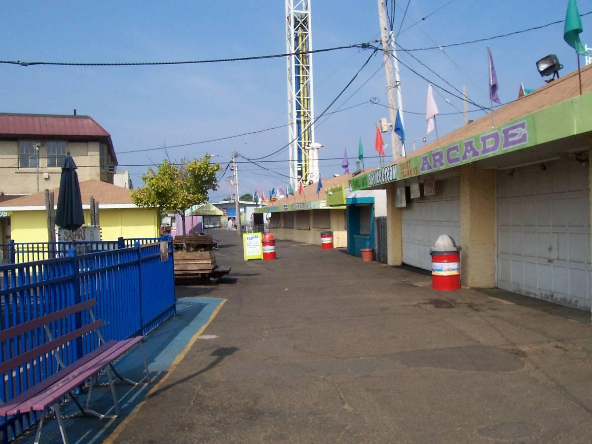 Early morning view of the Keansburg boardwalk